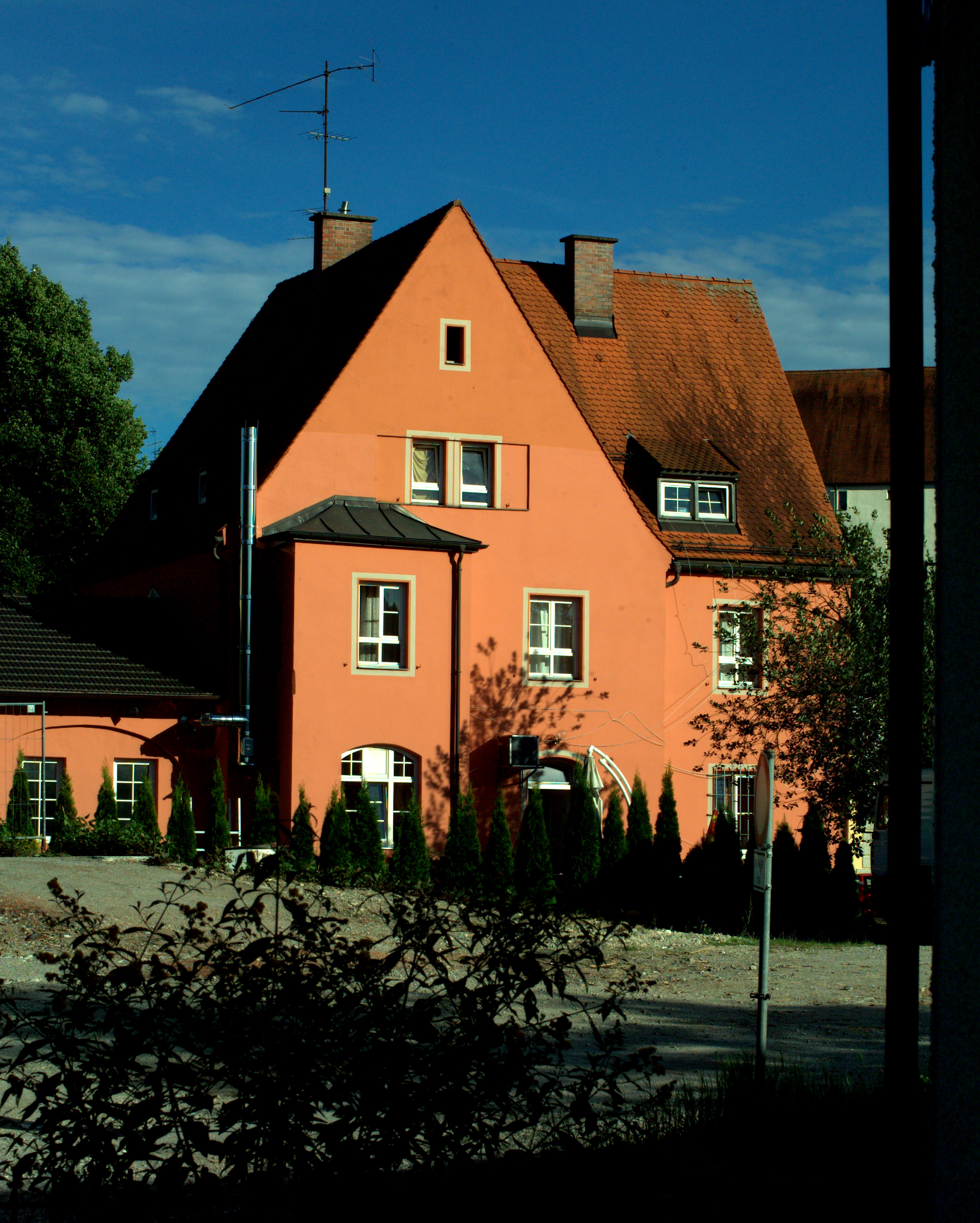 Former railway station Wasserburg Stadt at Wasserburg am Inn